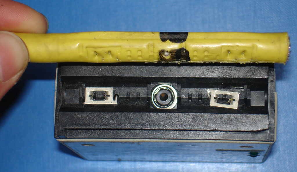 Vampire Tap as used in ThickNet / 10BASE-5 ethernet. Photo taken by me 22:22, 17 November 2005 (UTC)